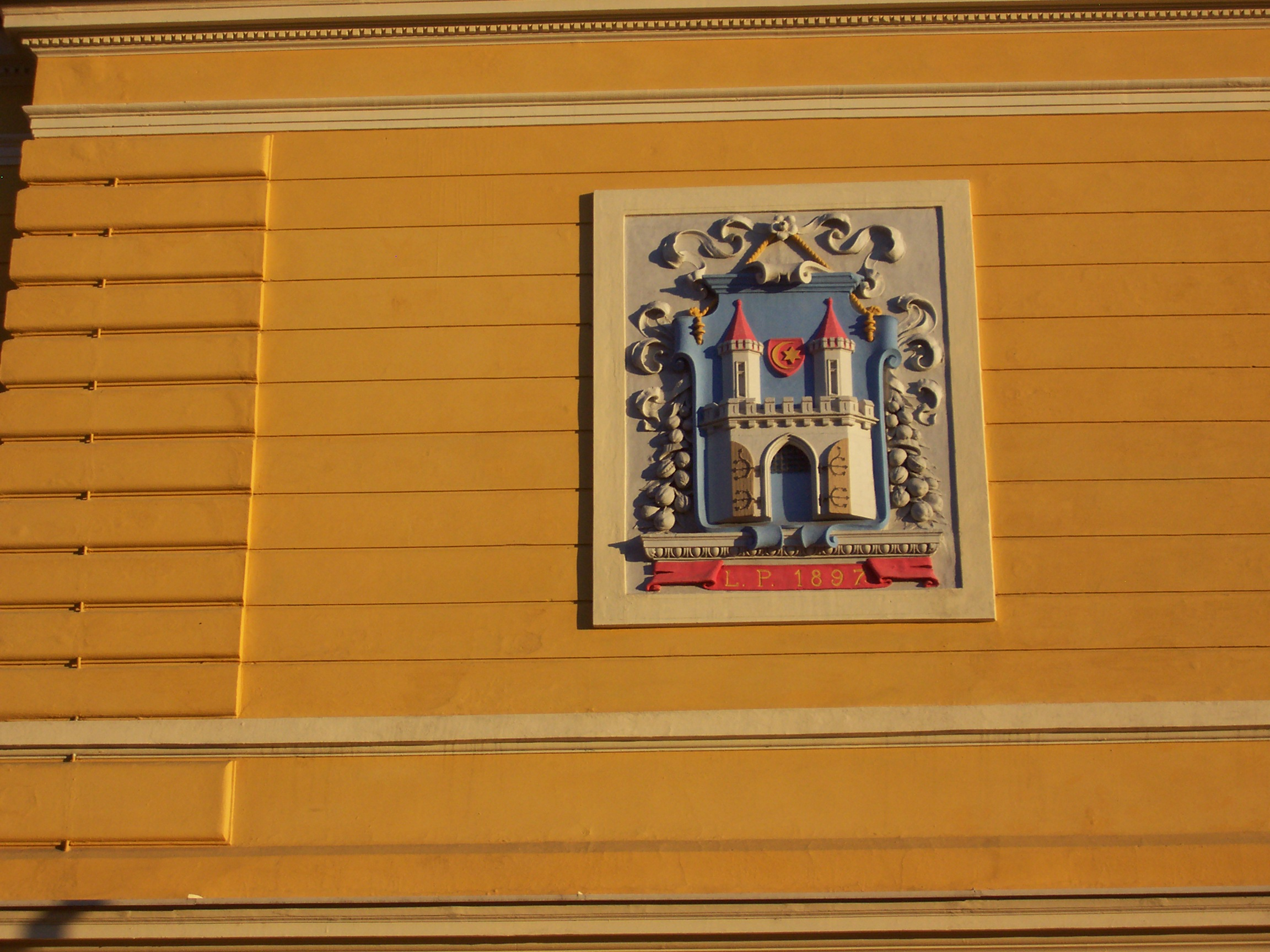 Coat of arms of Louny town on Special primary school in Louny.